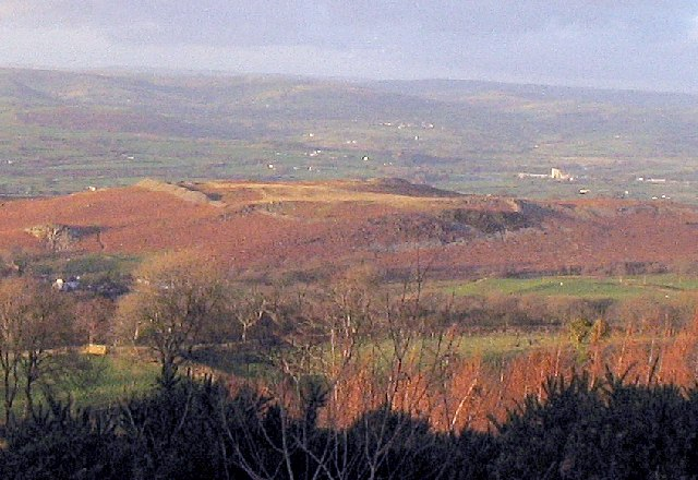 The Large Fort on Garn Goch. Garn Goch is a hill covered in red bracken. It is the site of an ancient settlement. There are 2 hills, each with a "fort". All that remains of the forts are the bands of collapsed loose grey stones that encircle each hill. The larger fort is pictured here, as seen from the south. It is said to contain a burial chamber.